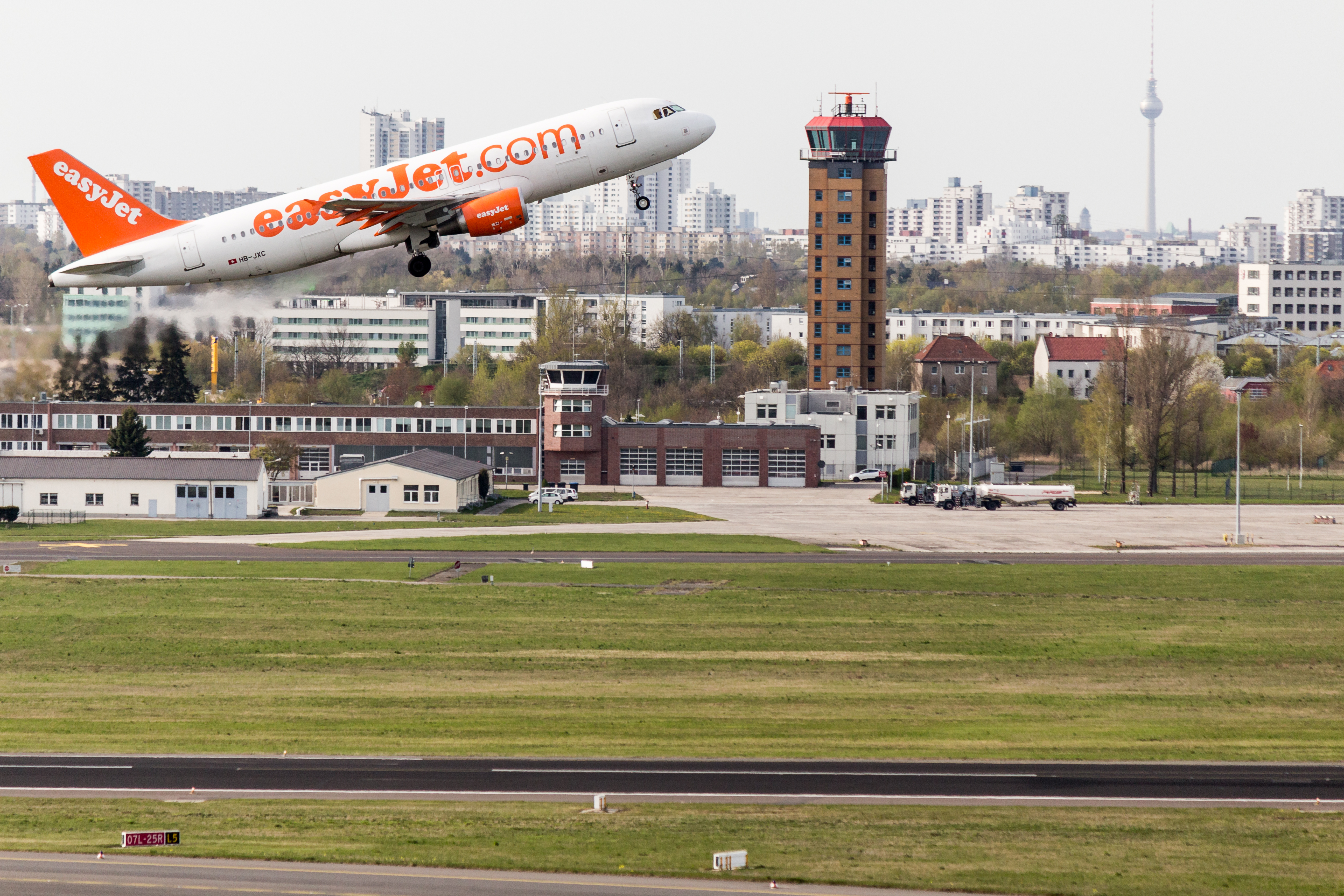 easyJet HB-JXC take-off at SXF Berlin-Schönefeld